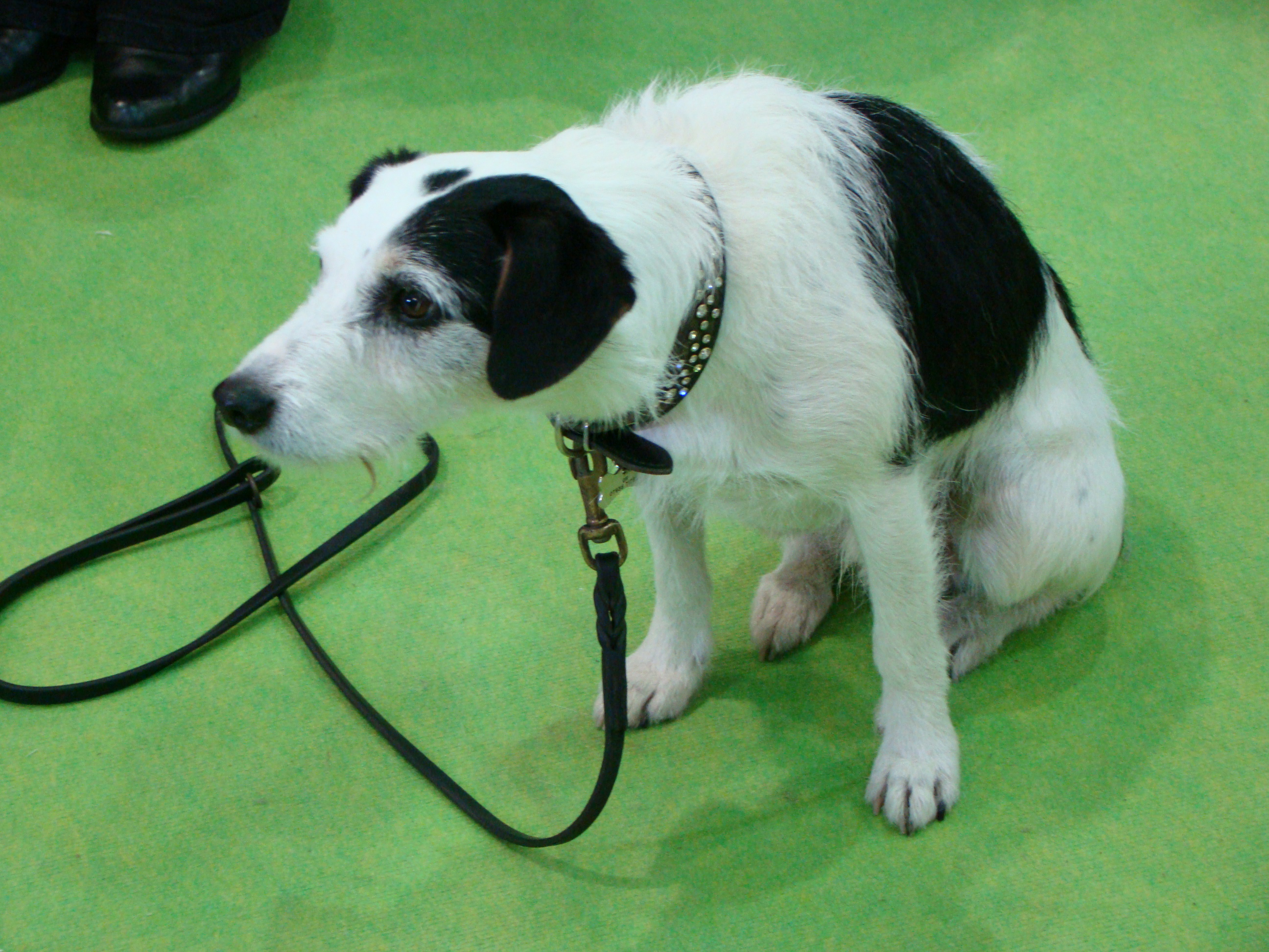 Photograph of Sykes, the dog actor. Famous for playing the dog Harvey in 2010's advert of the year in the UK.